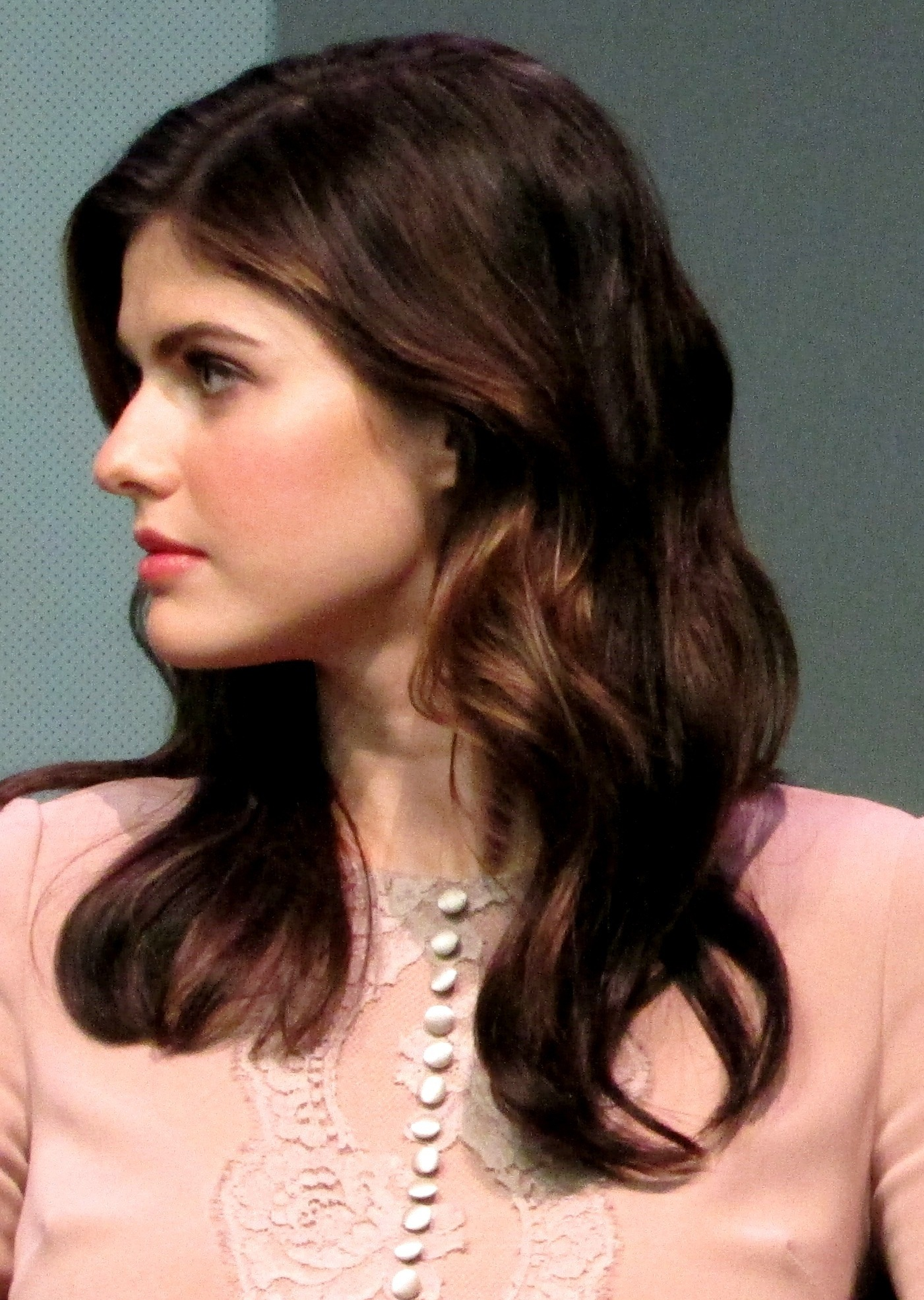 Alexandra Daddario attends the Apple Store Soho Presents: Meet the Filmmakers ‘Percy Jackson: Sea Of Monsters’ at Apple Store Soho on July 29, 2013 in New York City.